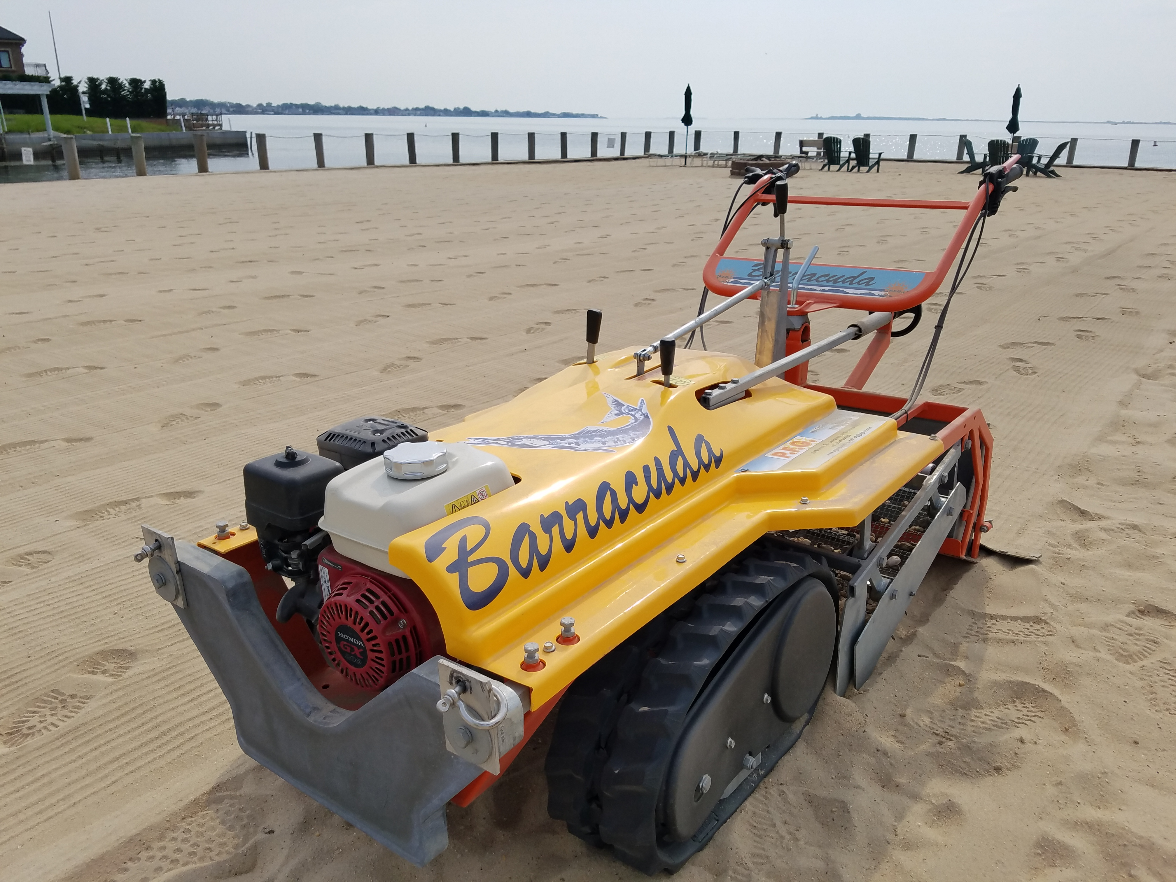 walk behind beach cleaner with rubber track drive